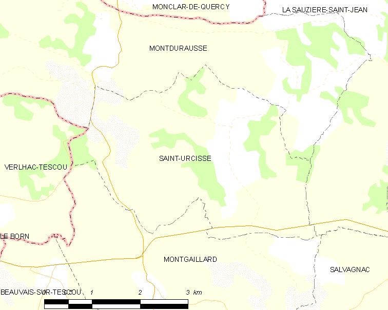 Map of French municipality Saint-Urcisse